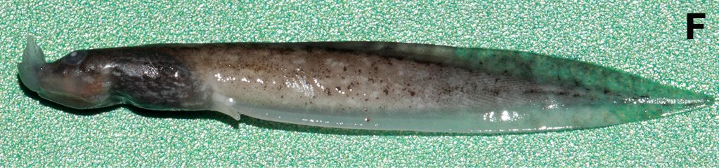 Megophrys lini, tadpole, Figure 5F from Wang, Y. et al. Morphology, molecular genetics, and bioacoustics support two new sympatric Xenophrys toads (Amphibia: Anura: Megophryidae) in Southeast China. PLoS ONE 9, e93075 (2014)